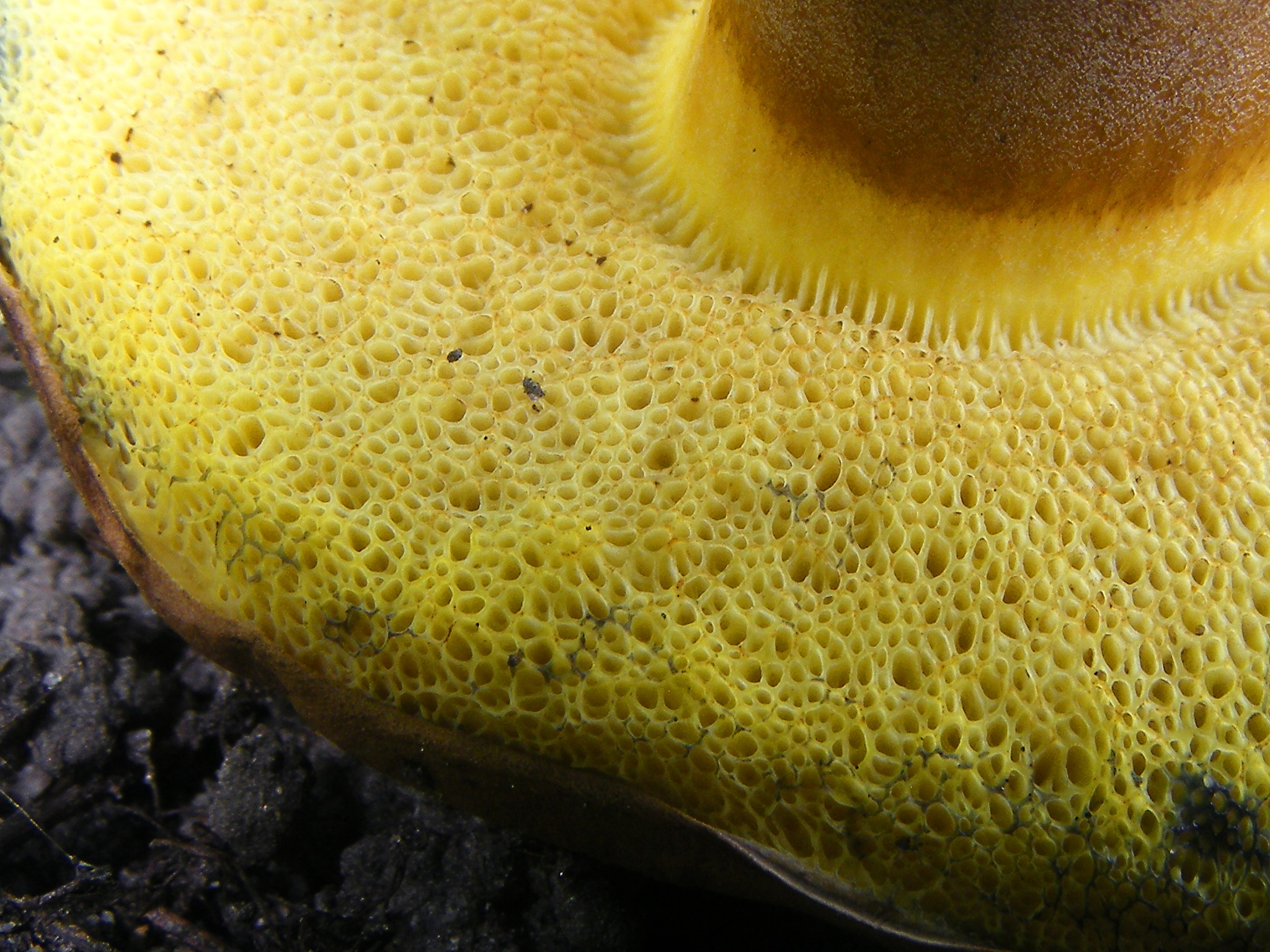 Boletus pulverulentus - hymenophore.